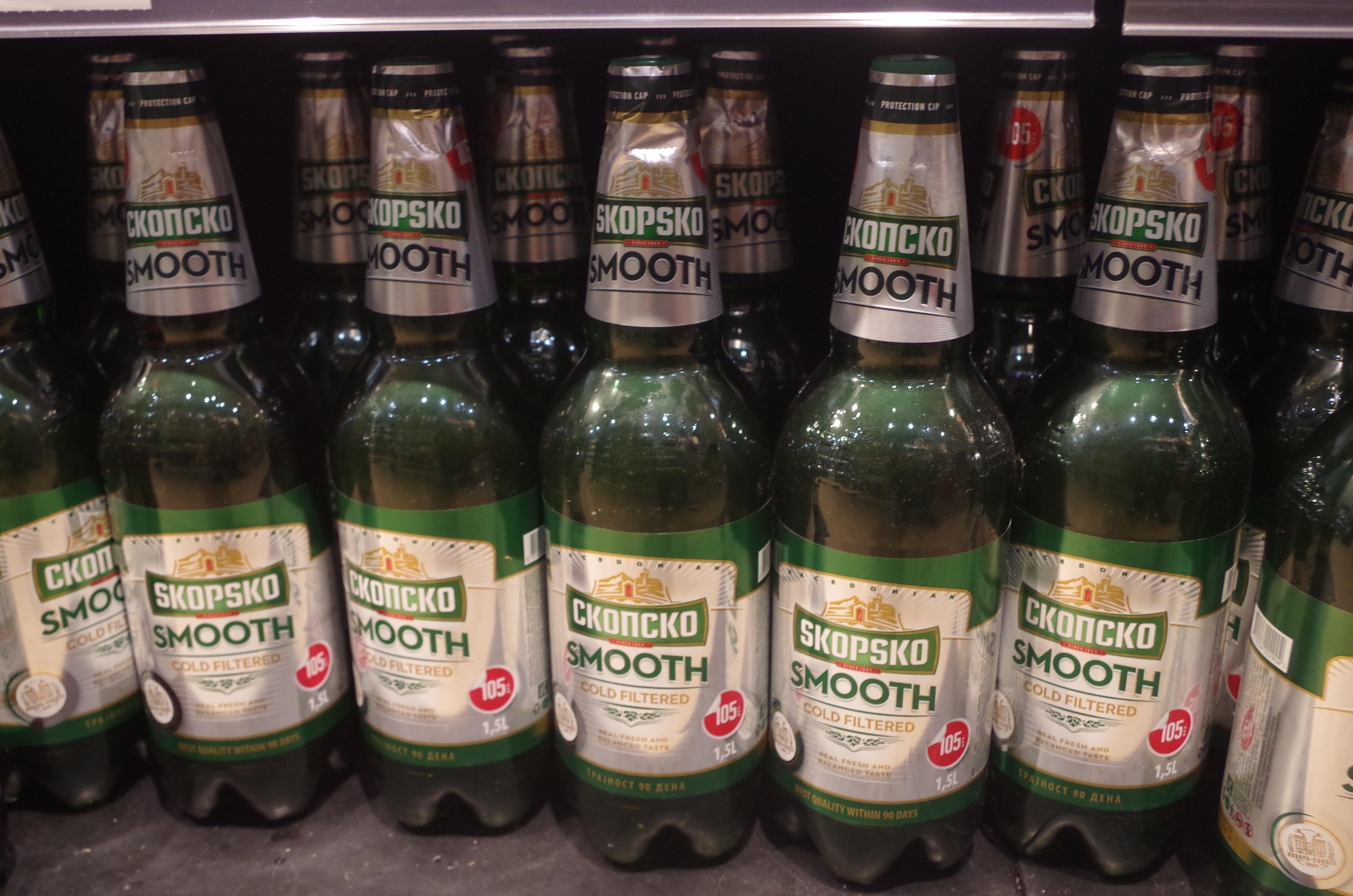 Plastic bottles of "Skopsko smooth" Macedonian beer